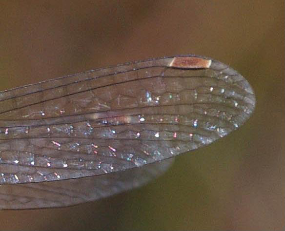 The damselfly Lestes virens vestula; a male specimen.